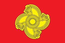 Flag of Nyzhnosirogozkyj rajon